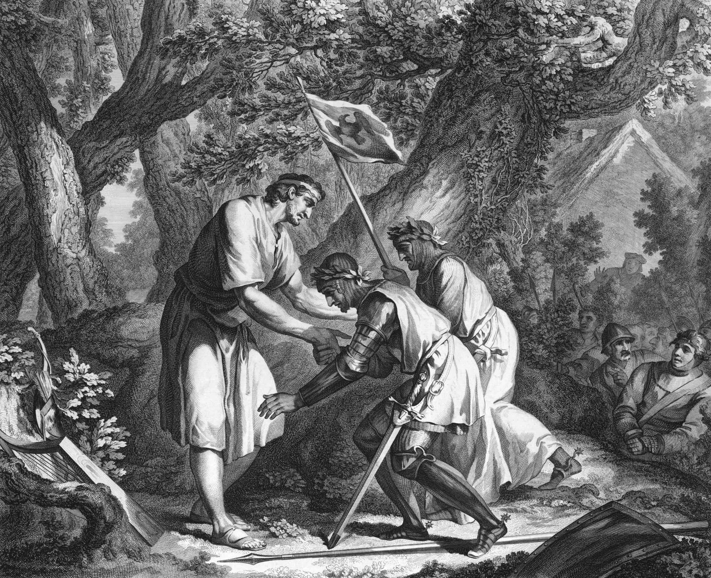 A cropped version of File:Alfred in the Isle of Athelney, receiving News of a Victory over the Danes.jpg.